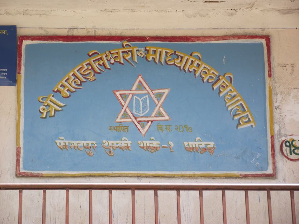 Mahankaleswori Ma vi